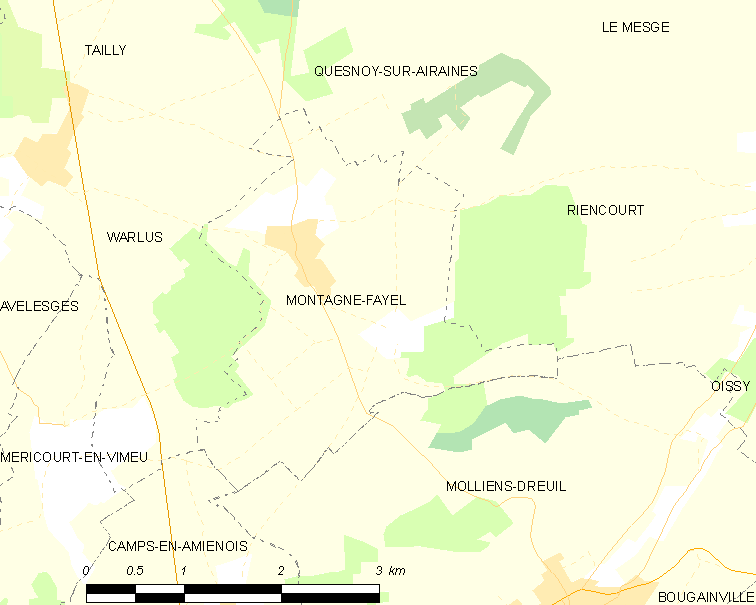 Map of French municipality Montagne-Fayel